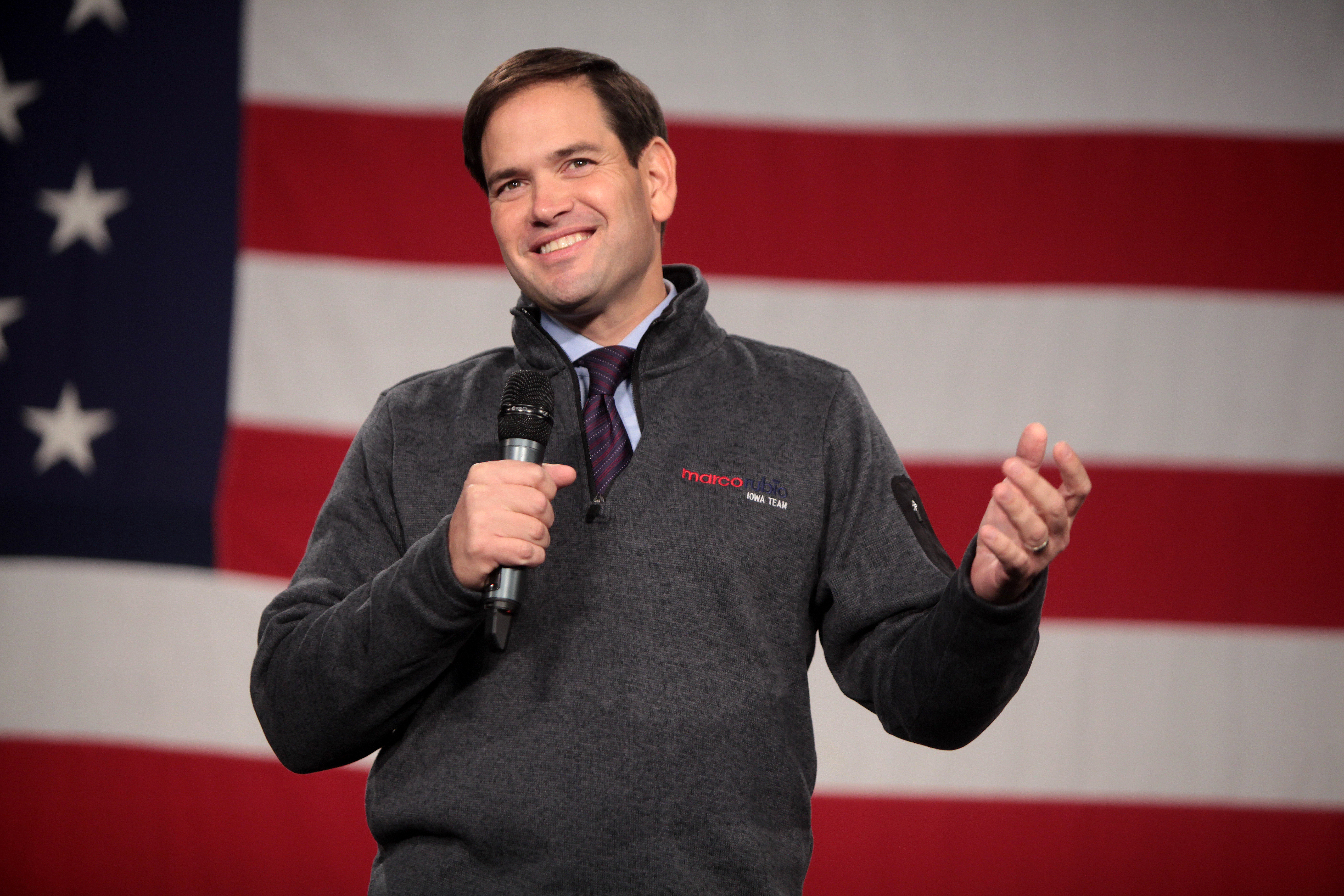 Marco Rubio speaking at the Iowa GOP's Growth and Opportunity Party in Des Moines, Iowa on October 31, 2015.